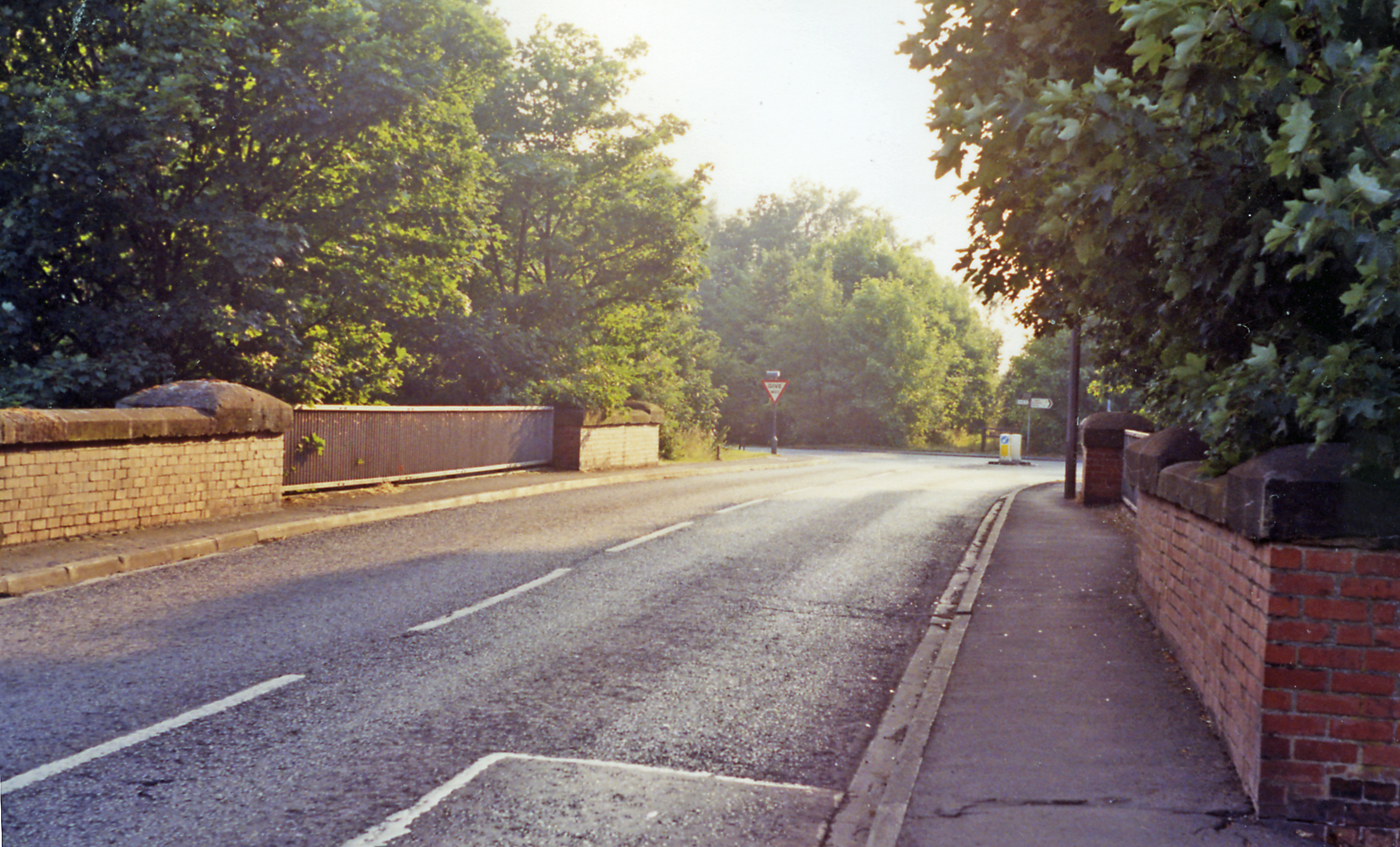 Earswick: approximate site of former station, 1991. View SW, where the road crosses the course of the former ex-NER York - Market Weighton - Hull line, just east of its junction with the York - Scarborough line. Along with Earswick station the line to Market Weighton had closed from 29/11/65.